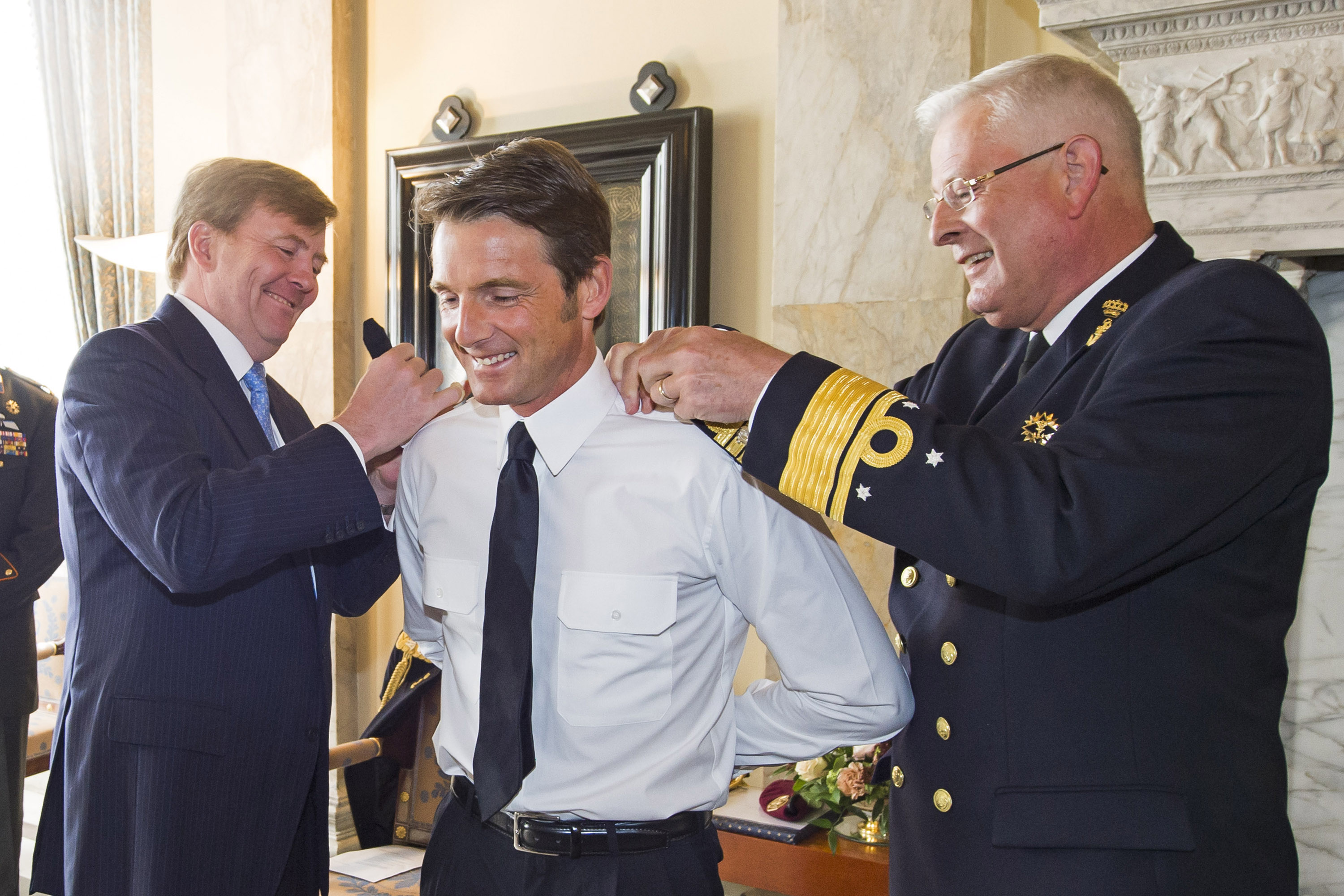 Prince Maurits of Orange-Nassau, van Vollenhoven is being promoted by King Willem-Alexander to commander and Aide-de-camp of the King.